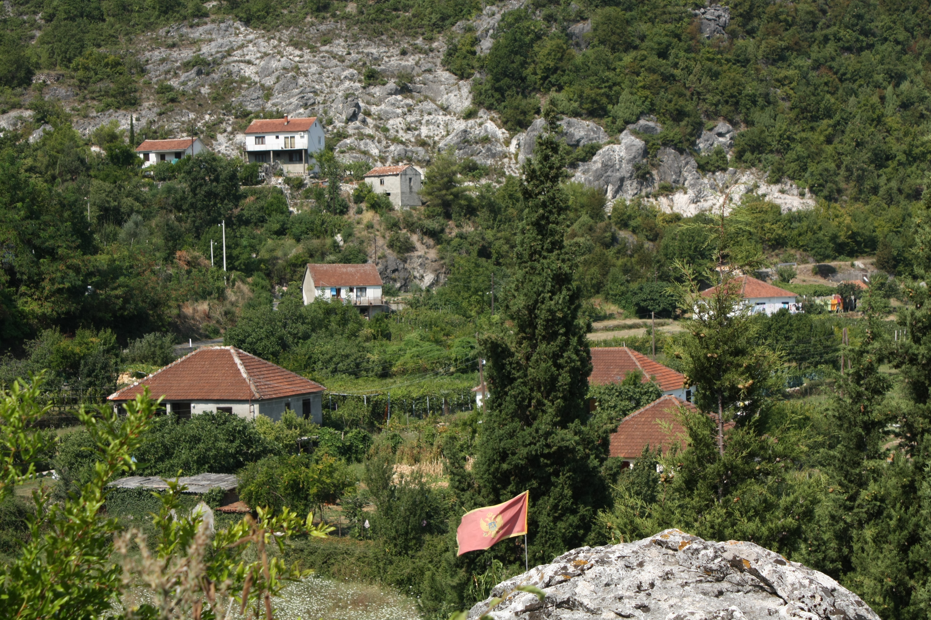 Godinje, Montenegro - view of the village